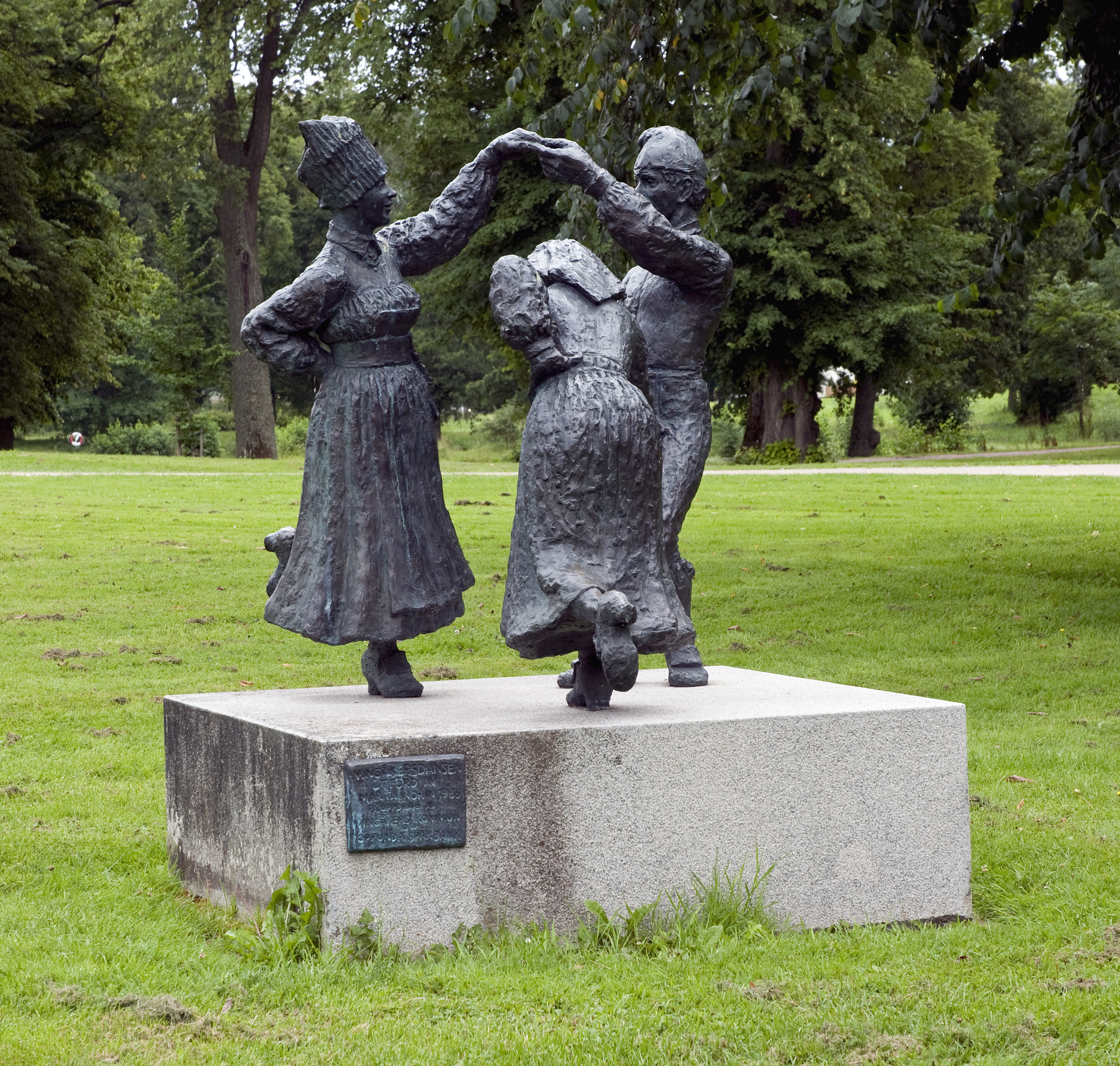 Vingåker dance performed by Martha Norin 1988.